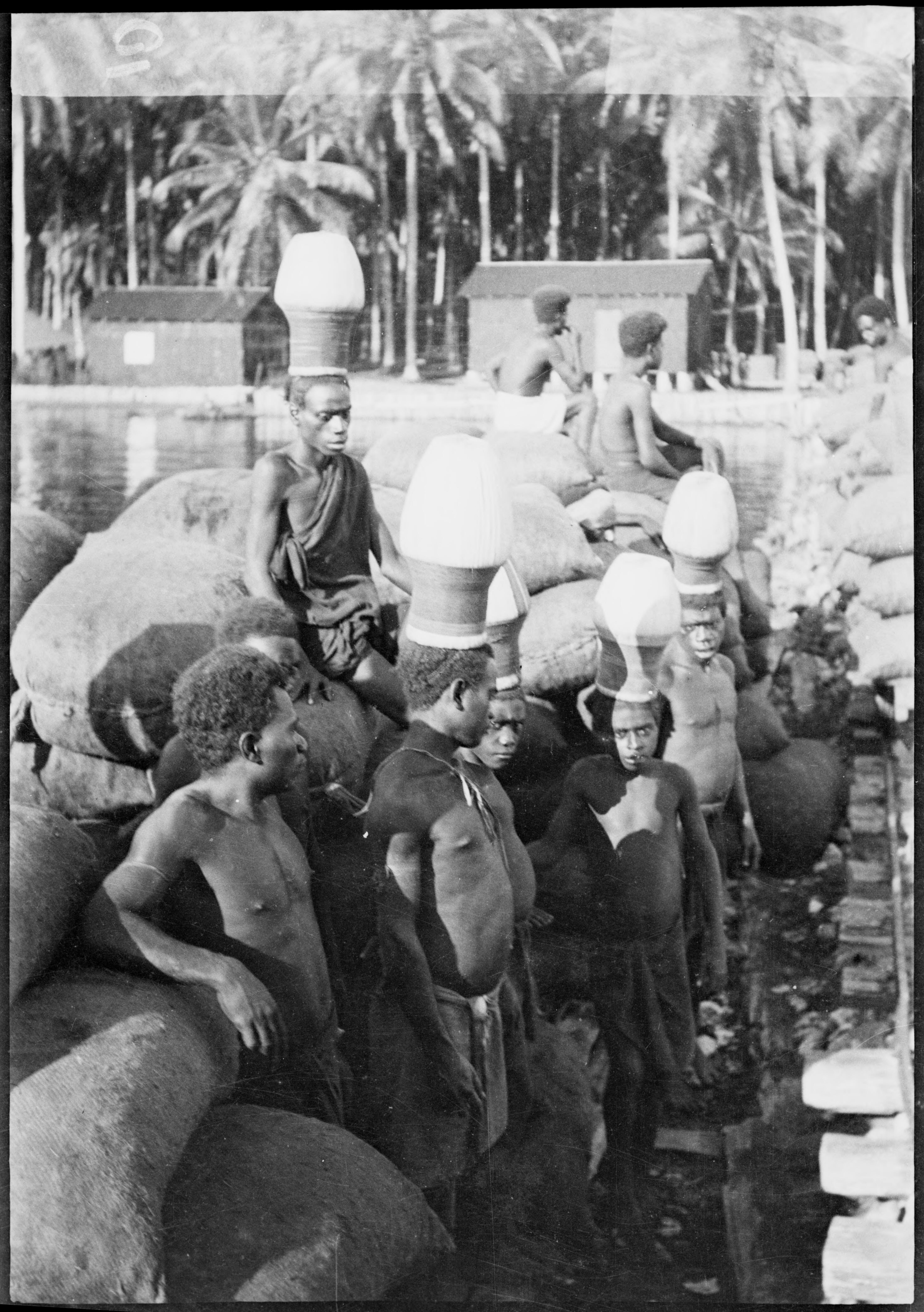 Five men wearing Ombu ceremonial headwear, Soraken, Bougainville Island